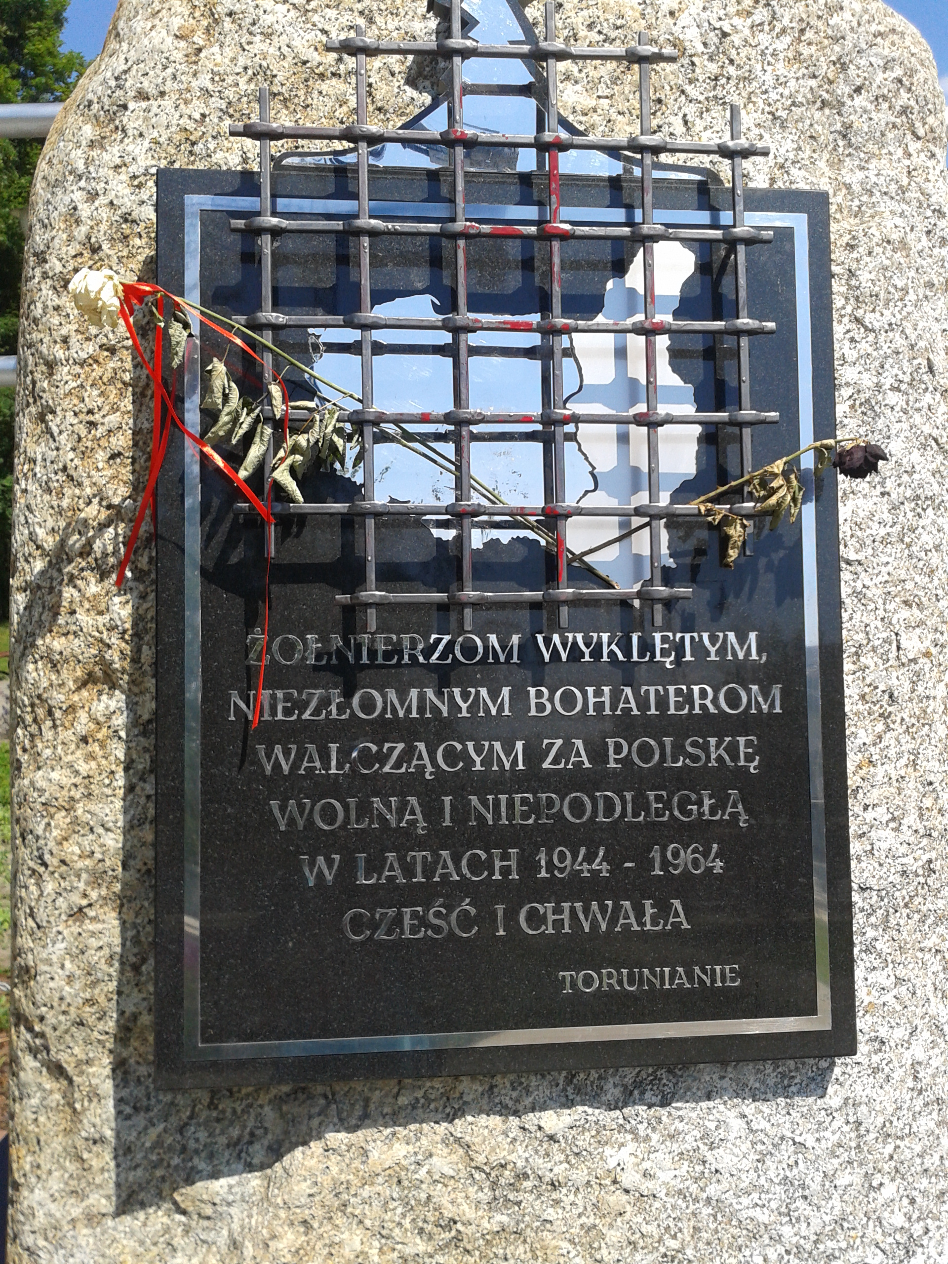 Plaque of the new Monument of Cursed Soldiers in Toruń